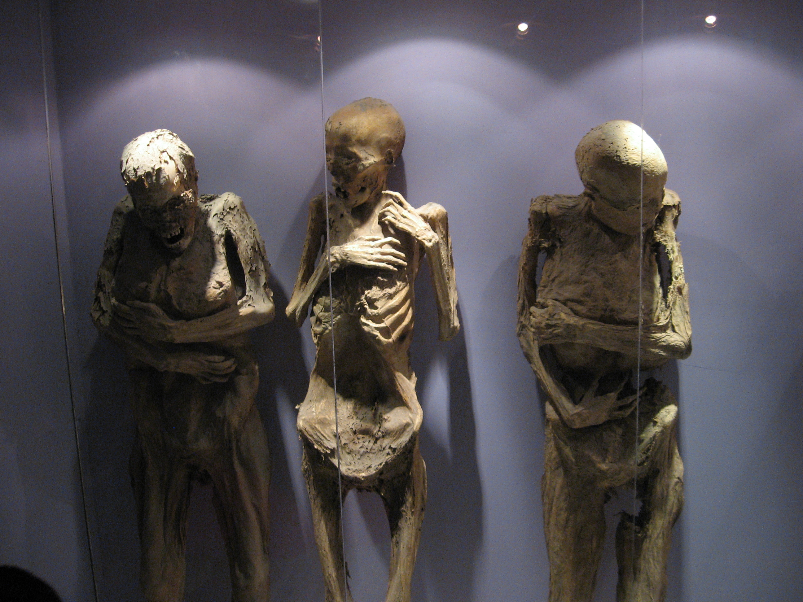 Mummy Guanajuato